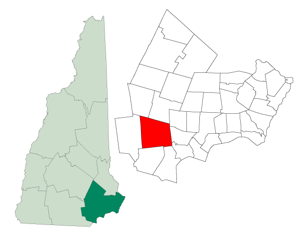 Map of a municipality in Rockingham County, New Hampshire